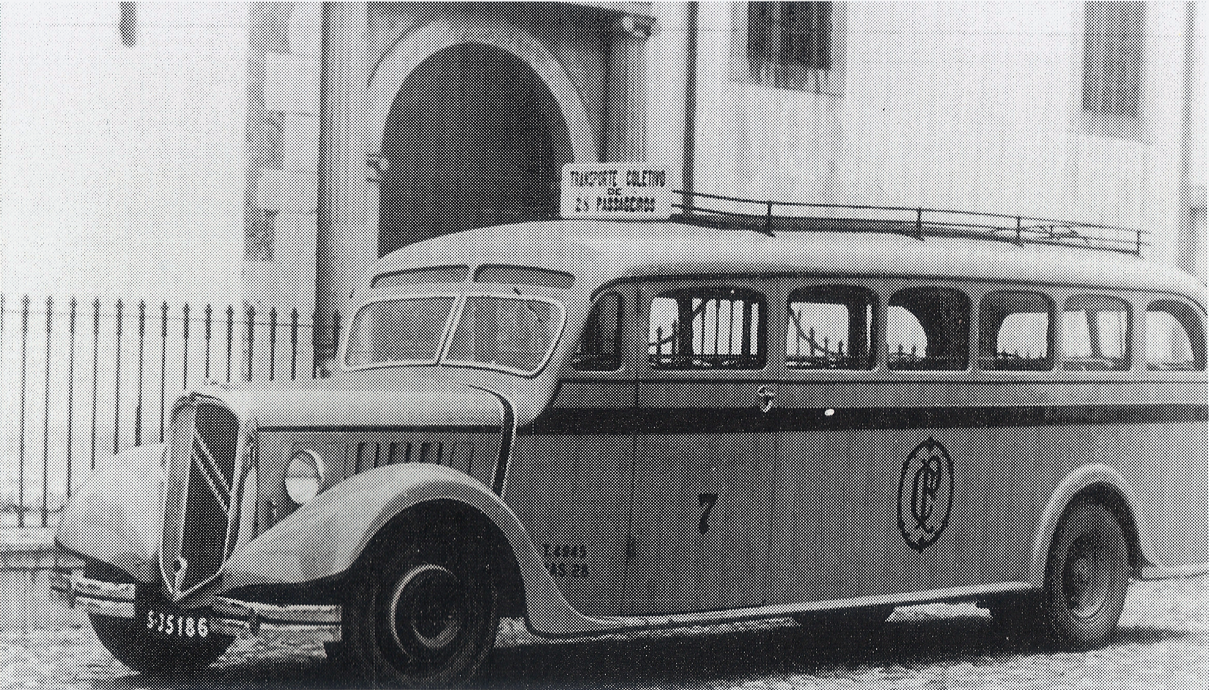 Citröen bus, at the service of the Companhia dos Caminhos de Ferro Portugueses (Portuguese Railways), in the 1930s.